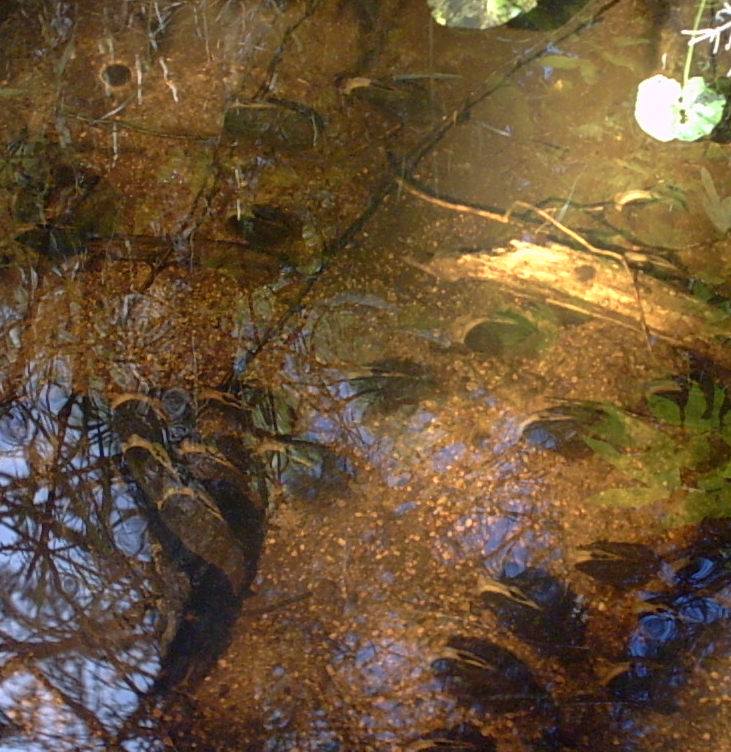 Freshwater Pearl mussels in clear water